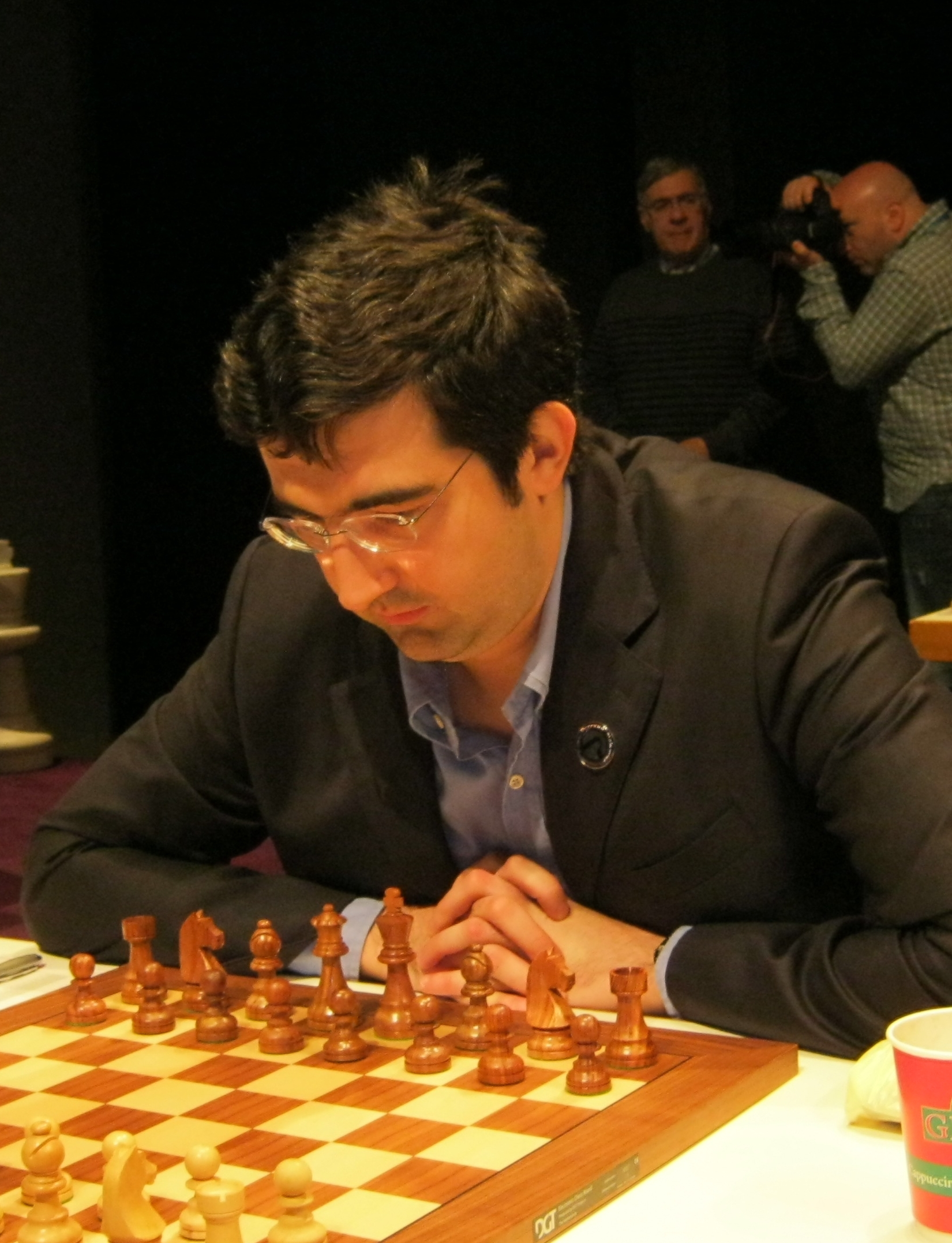 Vladimir Kramnik, chess grandmaster from Russia